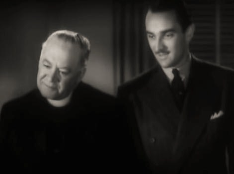 Oscar O'Shea (left) & Lee Bowman in Love Affair - cropped screenshot